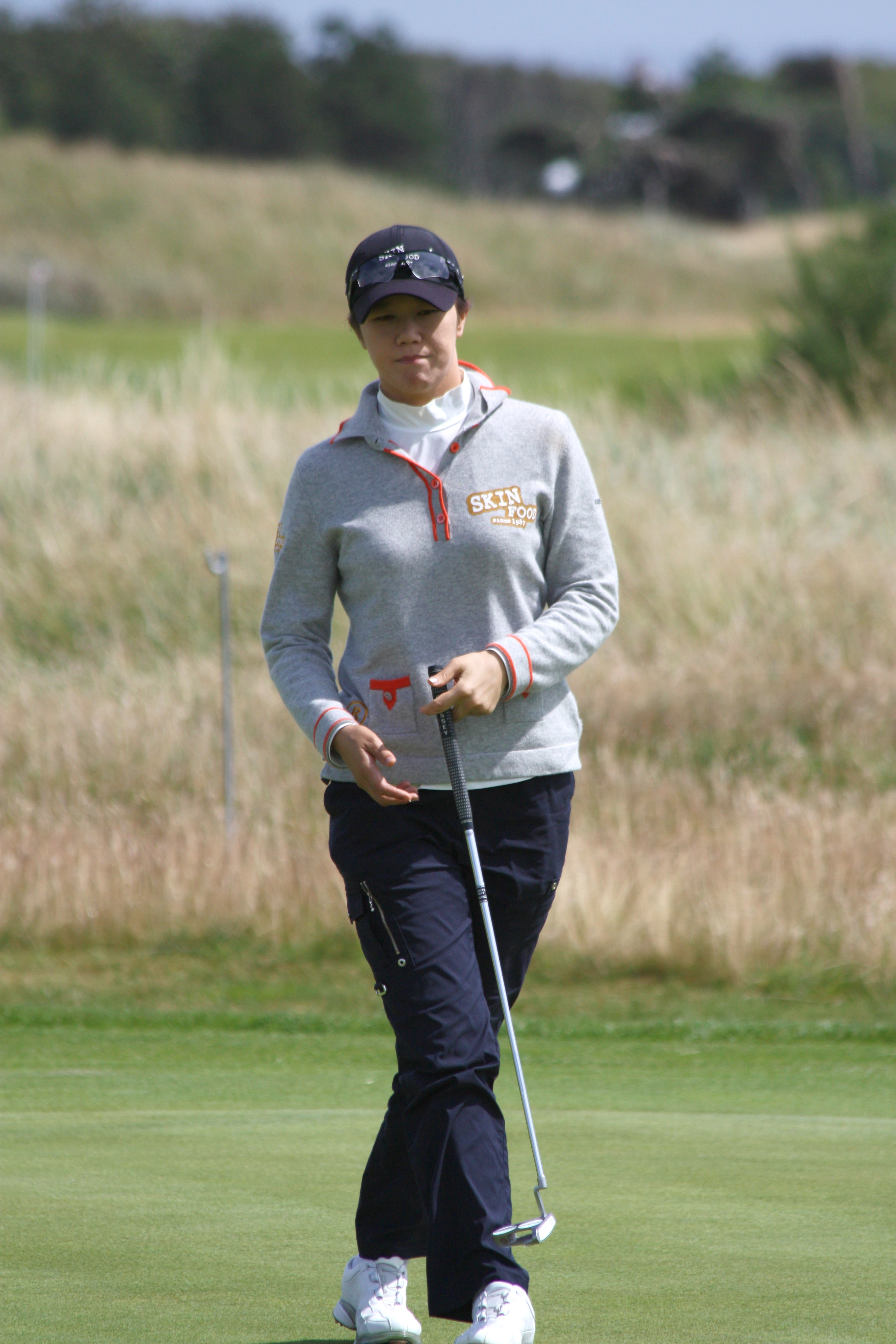 LYTHAM ST ANNES, UNITED KINGDOM - JULY 27: Young Kim of South Korea on the 15th green during first practice round before 2009 Ricoh Women's British Open held at Royal Lytham & St Annes on July 27, 2009 in Lytham St Annes, England. (Photo by Wojciech Migda)